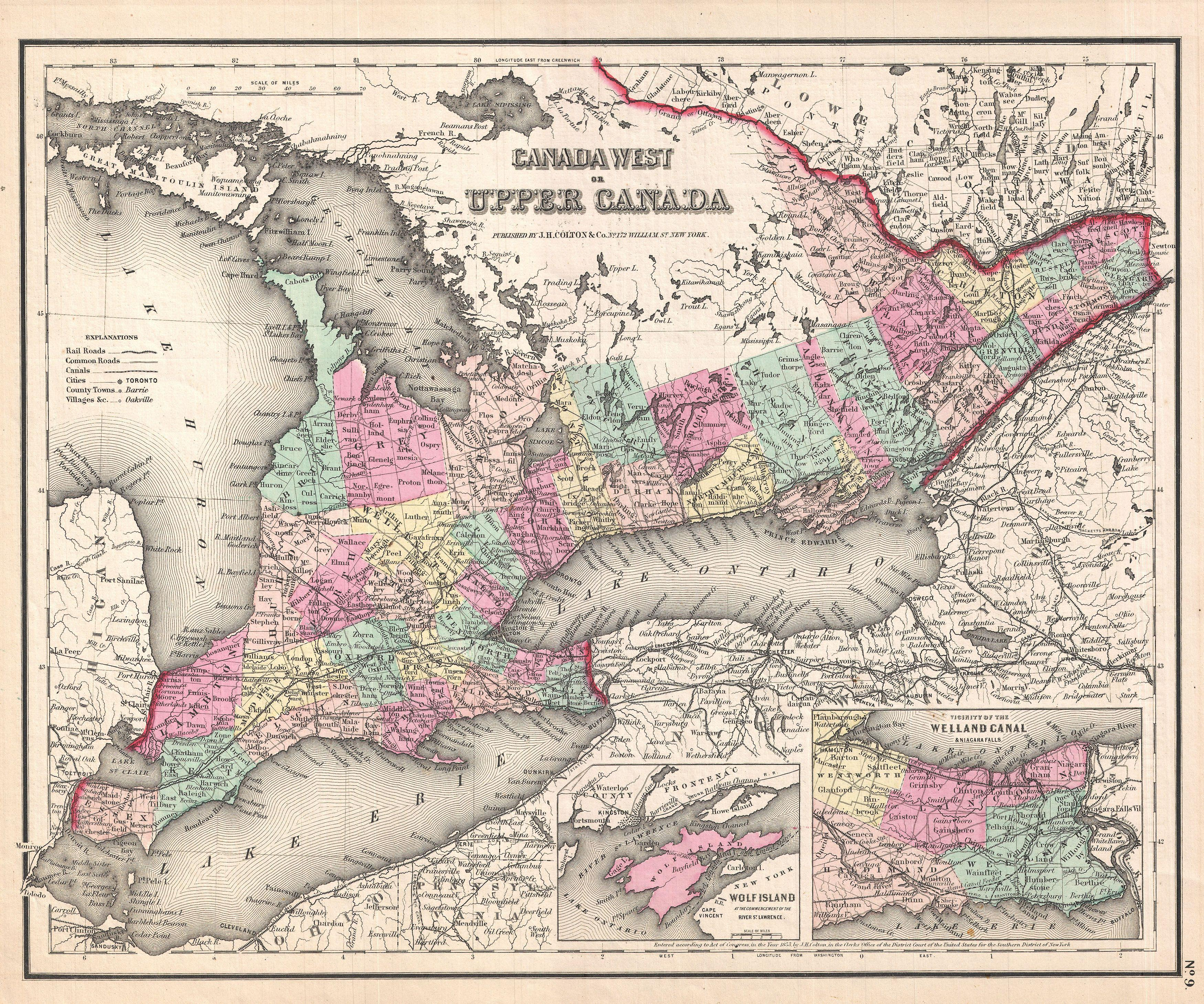 This is the uncommon 1857 issue of J. H. Colton’s map of Quebec, which at the time was called Canada West or Upper Canada. Covers from Essex in the south to Renfrew in the north, and from Lambton in the west to Glengabby in the east. Includes a detailed inset of Wolf Island and the Vicinity of Welland Canal and Niagara Falls. Divided and color coded according to county and province. Shows major roadways and railroads as well as geological features such as lakes and rivers. Like most Colton maps this map is dated 1855, but most likely was issued in the 1857 issue of Colton’s Atlas . This was the only issue of Colton's Atlas that appeared without his trademark grillwork border. Dated and copyrighted: “Entered according to the Act of Congress in the Year of 1855 by J. H. Colton & Co. in the Clerk’s Office of the District Court of the United States for the Southern District of New York.” Published from Colton’s 172 William Street Office in New York City, NY.